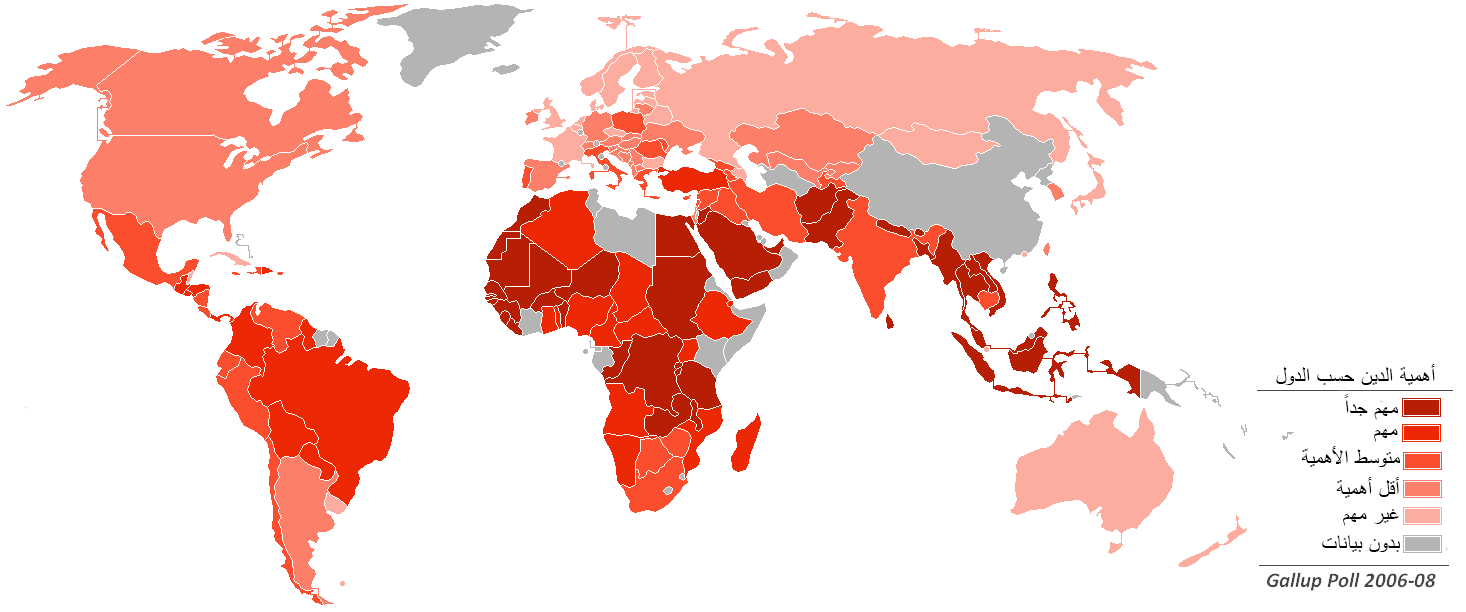 In 2006, 2007, and 2008, Gallup asked representative samples in 143 countries and territories whether religion was an important part of their daily lives. This map is based on the results, and shows religiosity by country, ranging from the least religious to the most religious on a relative basis.